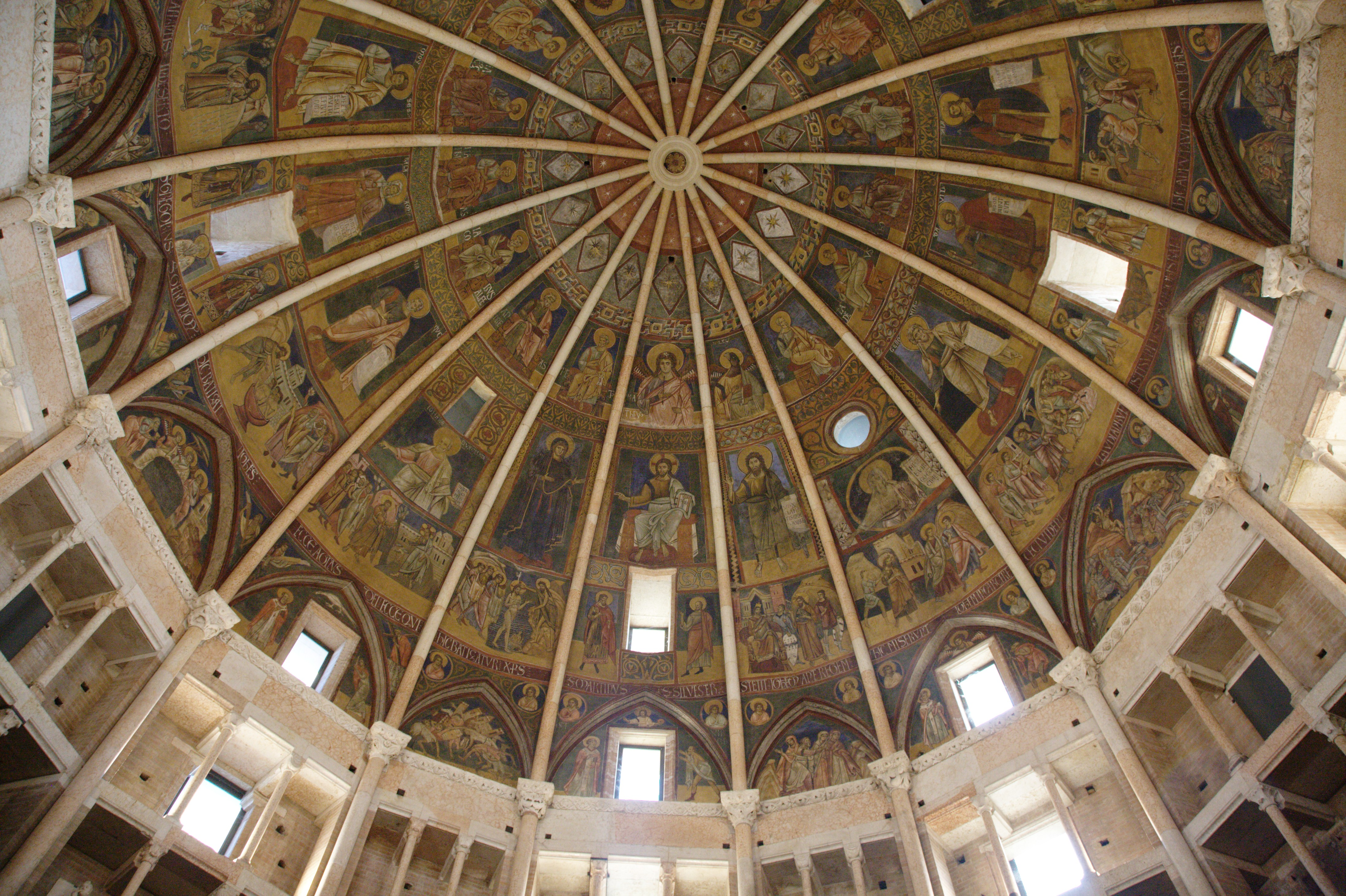 From the interior of the Baptistry of the Duomo in Parma